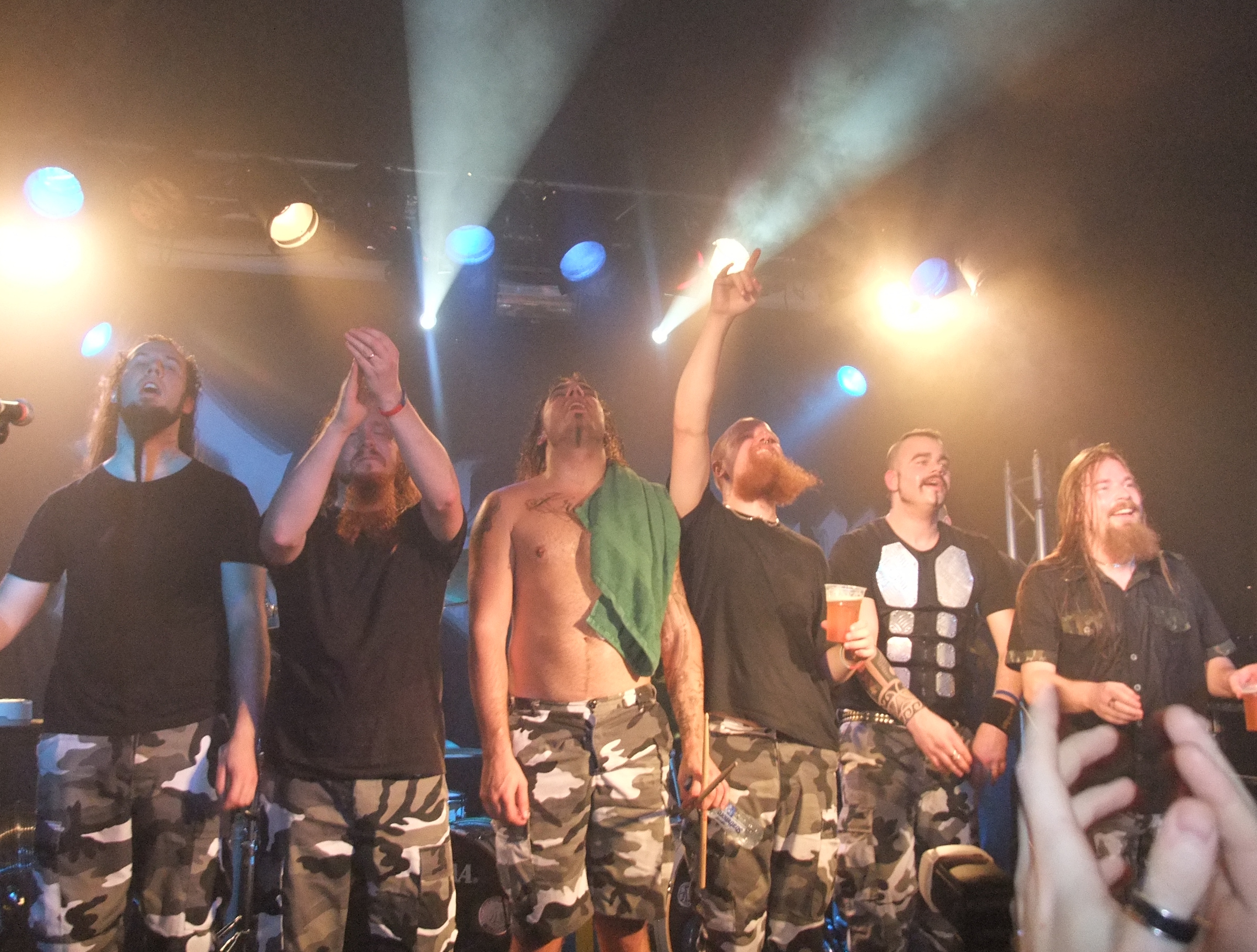 Sabaton at The Garage in London, 13th December 2009